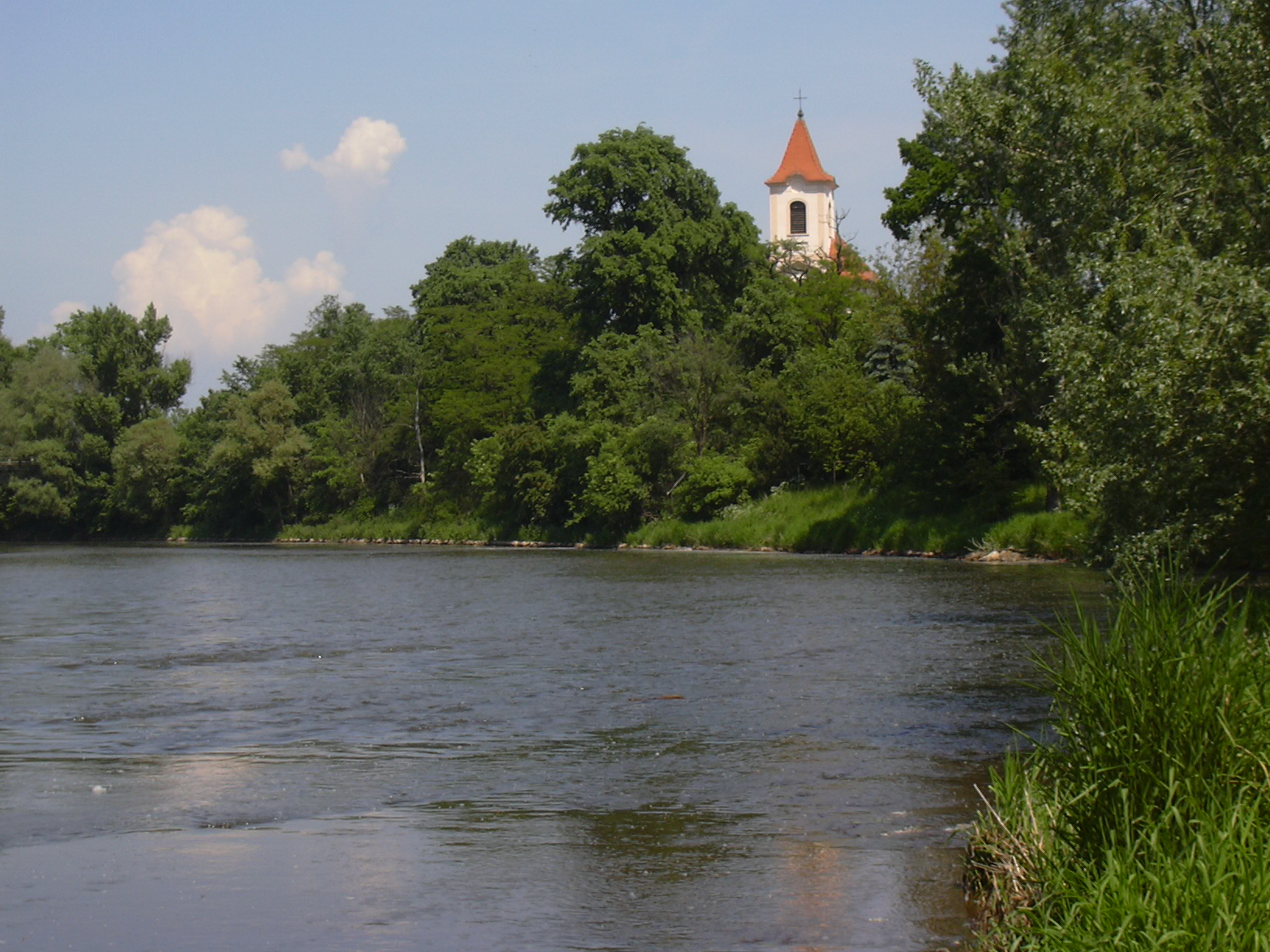 The Ohře River and church of SS Simon and Jude in Hradiště (a part of Postoloprty town, Louny District, Czech Republic)